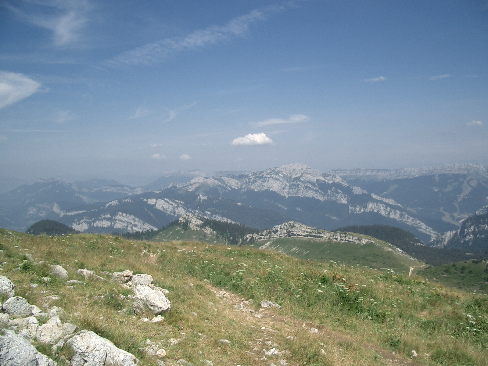 my own photograph